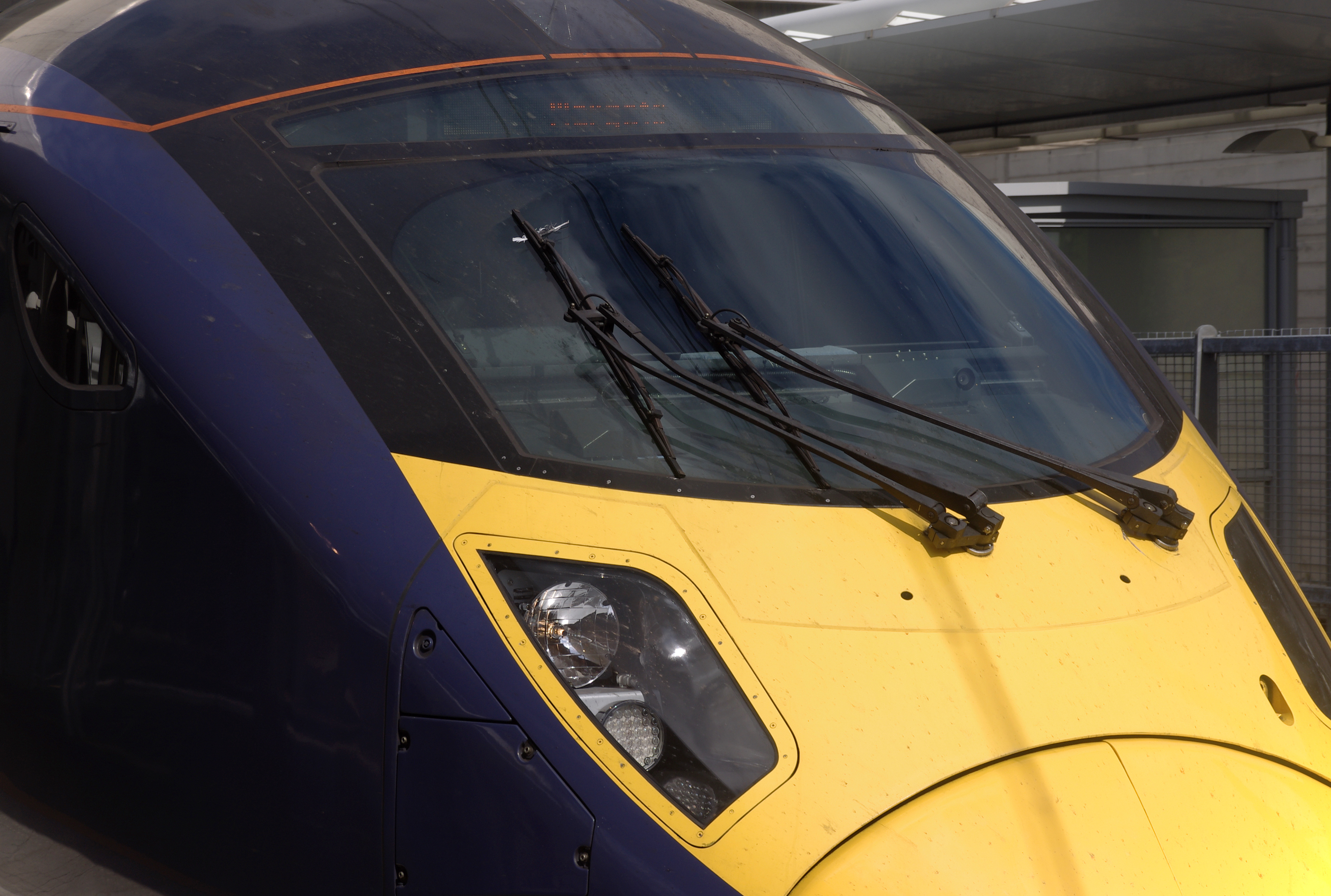 Southeastern Class 395 "Javelin" High Speed EMU 395018 stands at Ebbsfleet International station with a service to Margate.